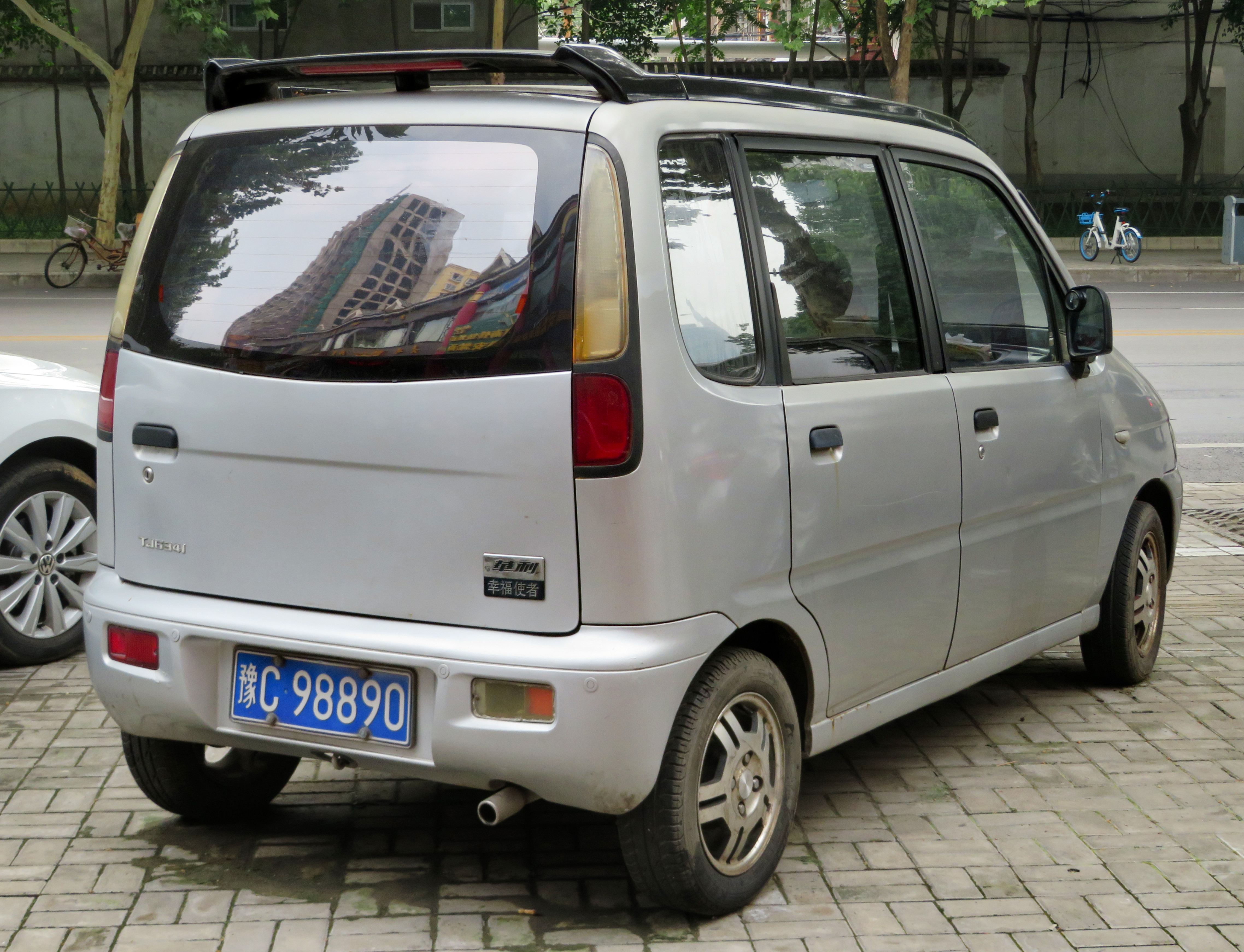 A 2005 FAW-Huali(Jiaxing) Happy Messenger TJ6341 photographed in Xigong District, Luoyang, Henan province, China